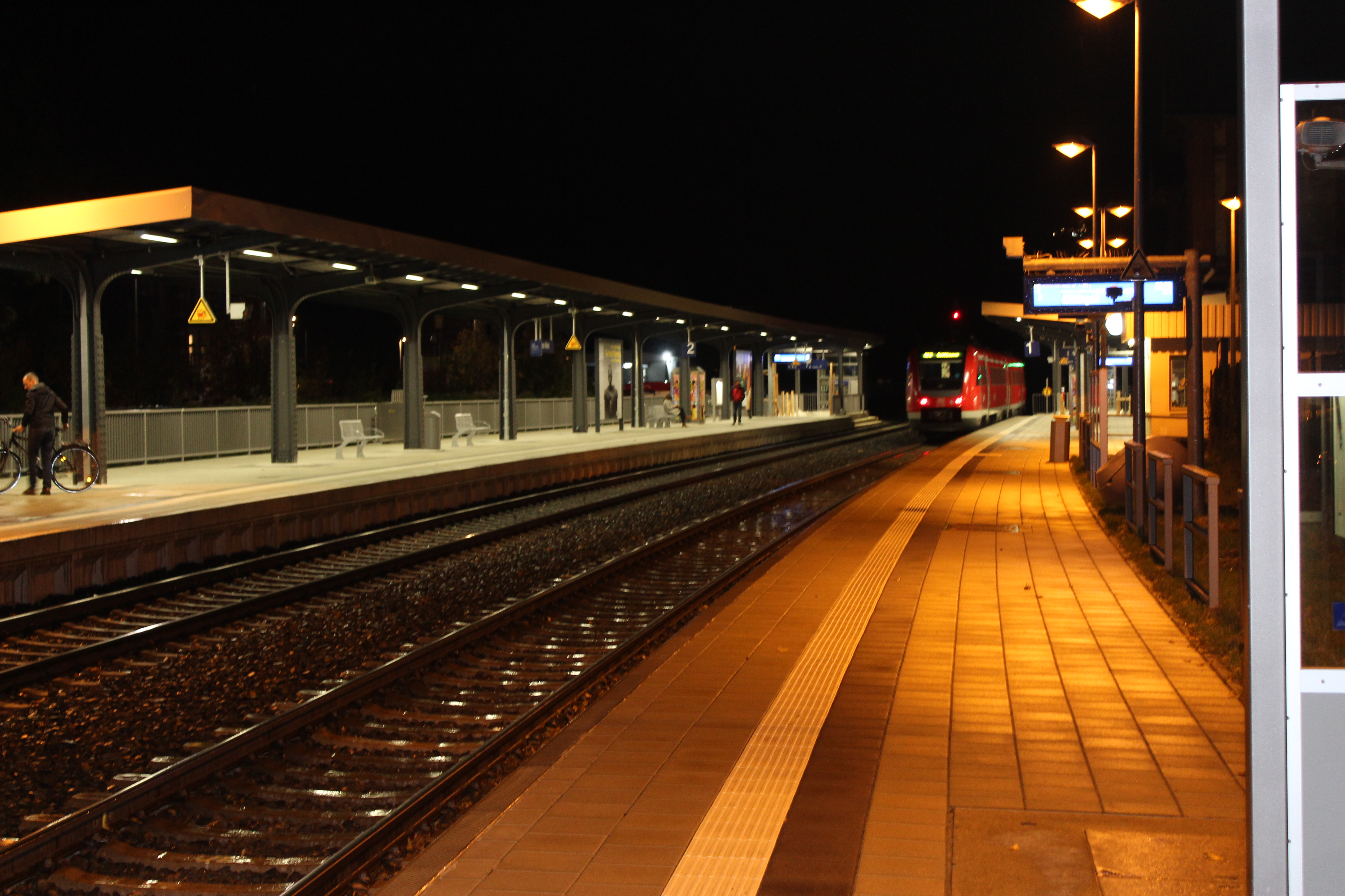 train station Jena West, platforms